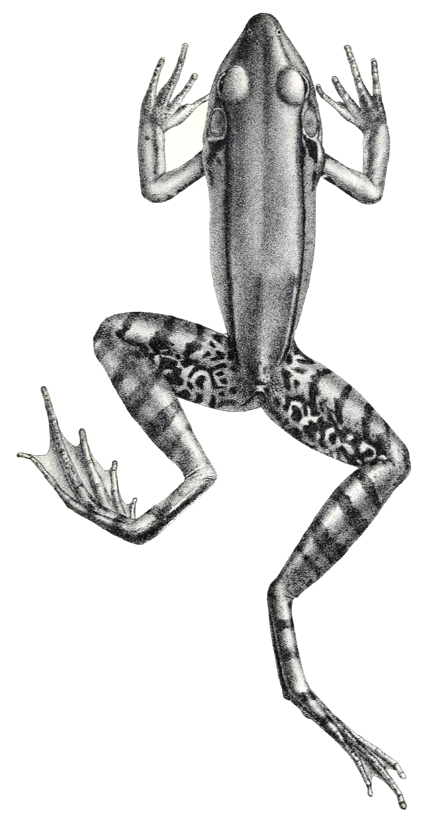 Rana güntheri = Hylarana guentheri